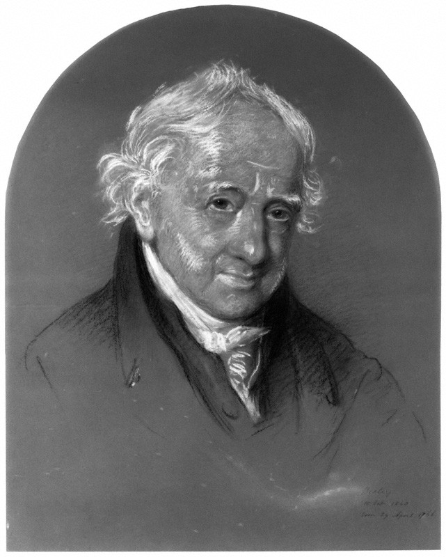 Nicholas Vansittart, 1st Baron Bexley, (1766-1851) portrayed by Georgiana Zornlin (1800-1881)